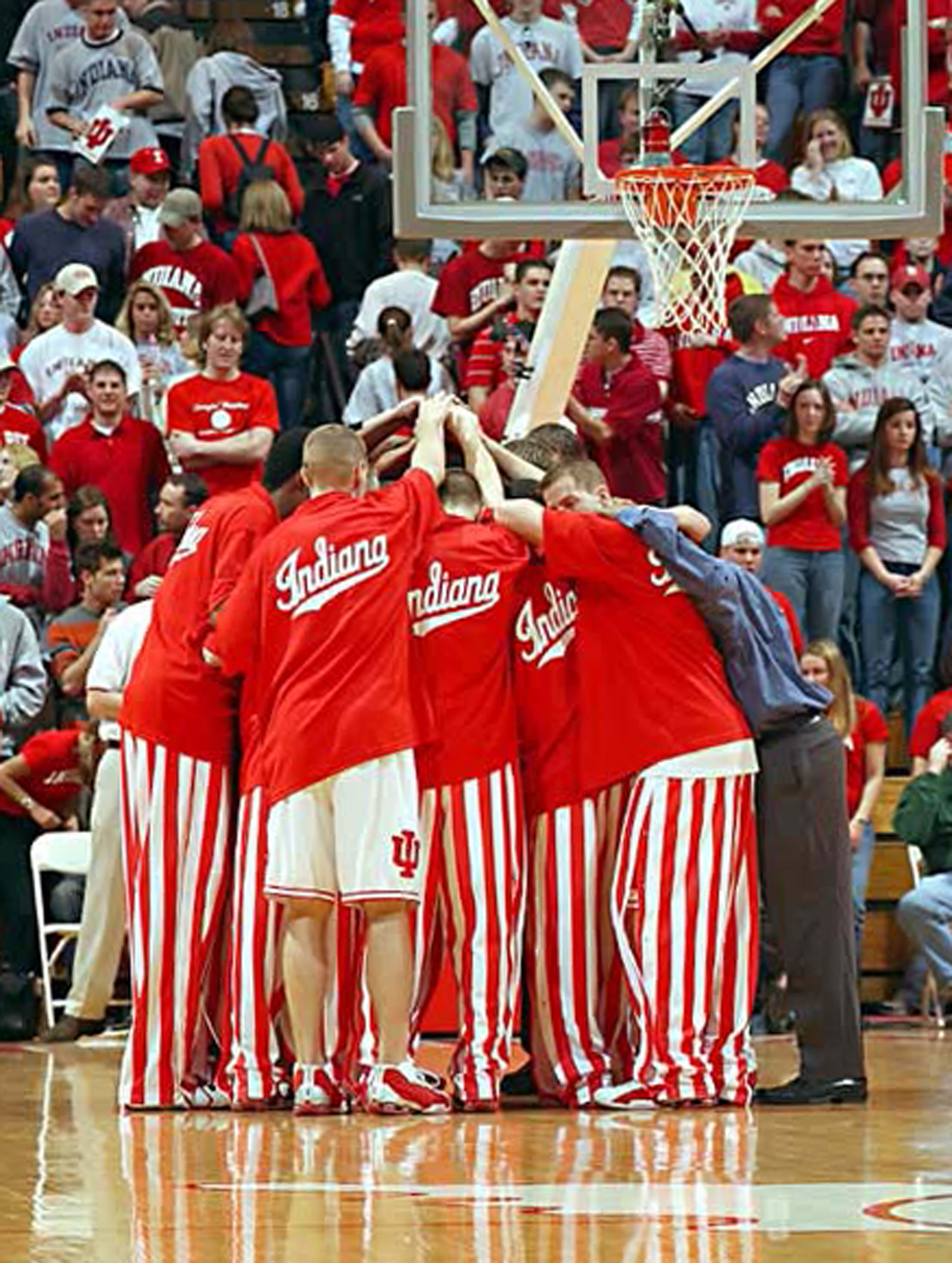 This is a photo of the Indiana University men's basketball team in a huddle before their home game on January 15, 2003. Players are shown wearing their iconic candy striped pants and classic warm-ups with cursive "Indiana".